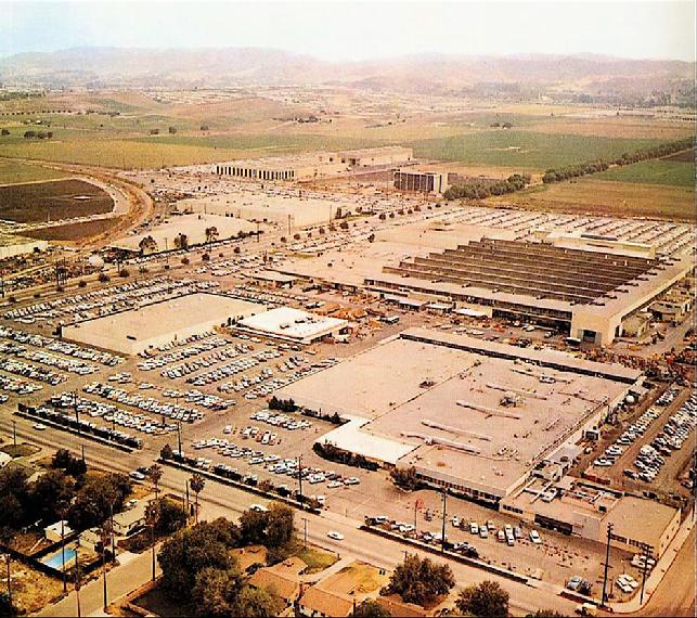 Historical aerial photograph of Air Force Plant 56, Operated by North American Aviation, Rocketdyne Division in 1960.